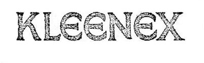 This is a picture of the original KLEENEX trademark filed in 1924. The origins of this drawing in stylized word form is Saturday, July 12, 1924 when Cellucotton Products Company of Neenah, Wisconsin filed a trademark application for U.S. federal trademark registration. Kimberly-Clark Corporation owns this trademark. [1] The USPTO has given the trademark serial number of 71199932. The current status of the trademark is registered and renewed.